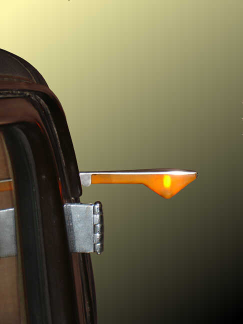 trafficator or semaphore on 1930s car